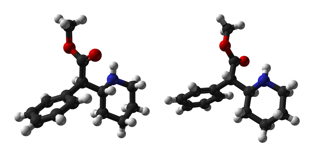 Ball-and-stick models of the dextro (R,R) enantiomer (on the left) and levo (S,S) enantiomer (on the right) of methylphenidate, based on the crystal structure of (−)-threo-methylphenidate hydrochloride. X-ray diffraction data from Pharm. Res. (1995) 12, 1430-1434. Model constructed in CrystalMaker 8.1. Image generated in Accelrys DS Visualizer.